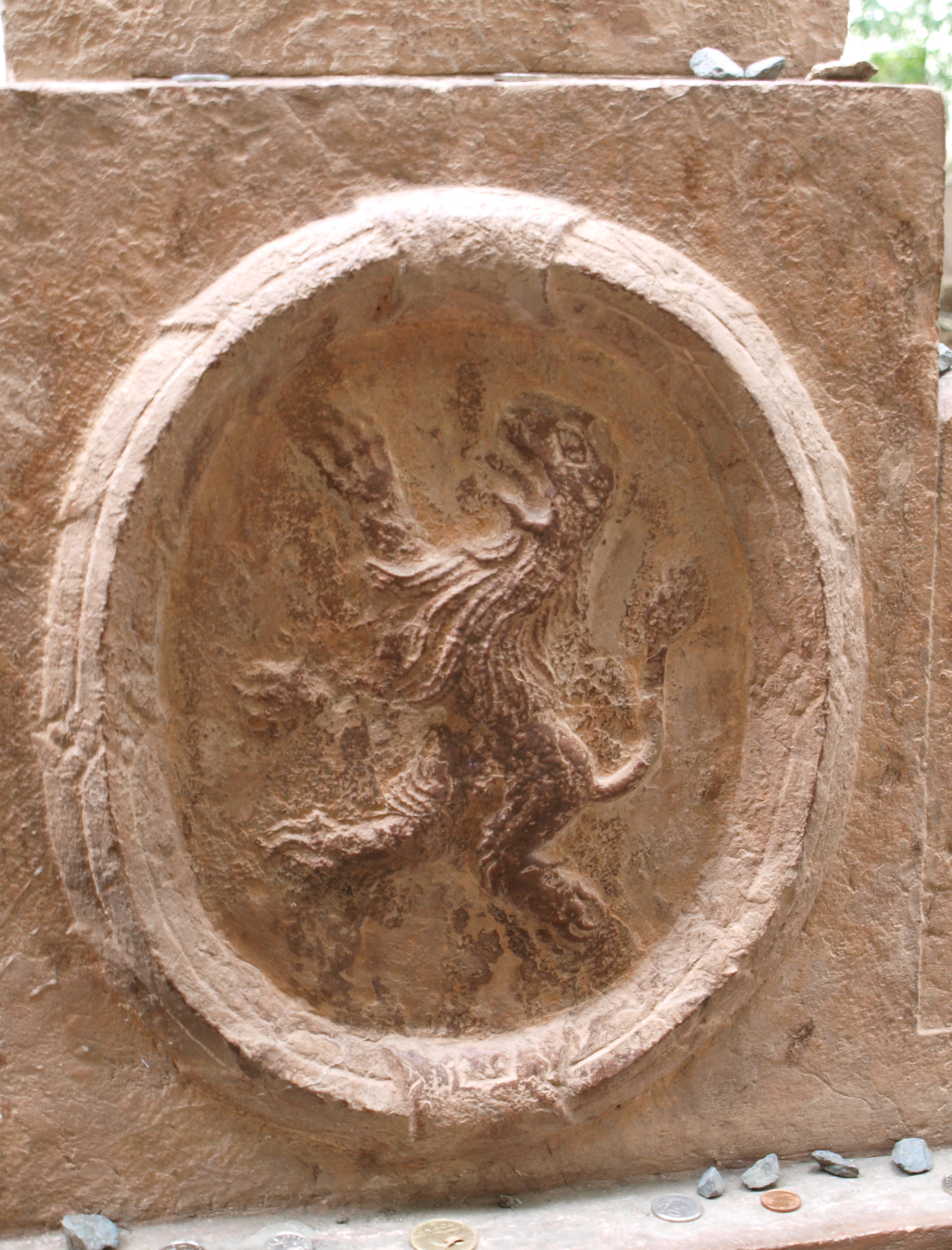 A decoration on tombstone of Judah Löw ben Bezaleel at Prague